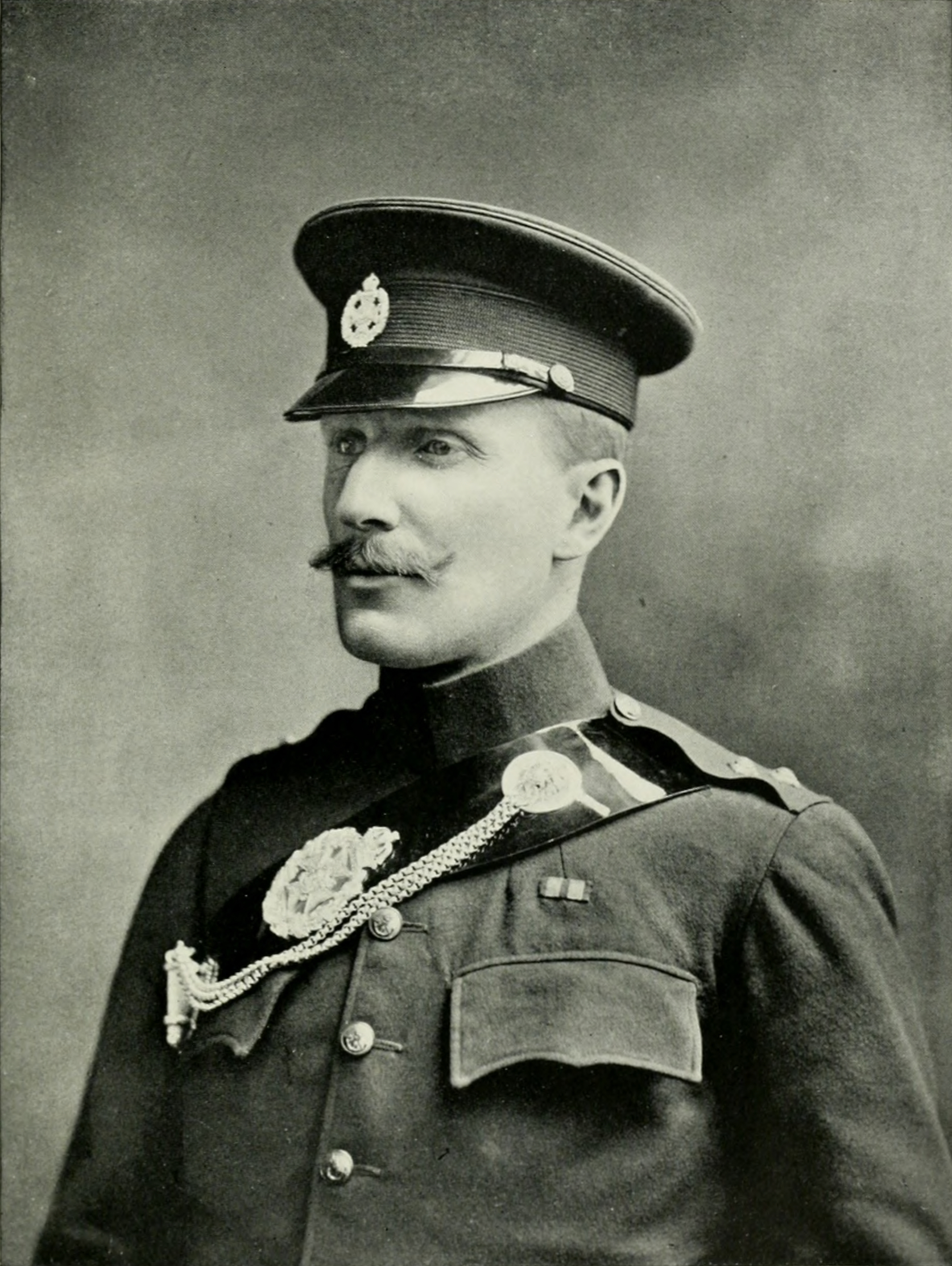 Lieutenant Boyd Alexander in 1902 (16 January 1873 – 2 April 1910) in 1902 at the age of 29